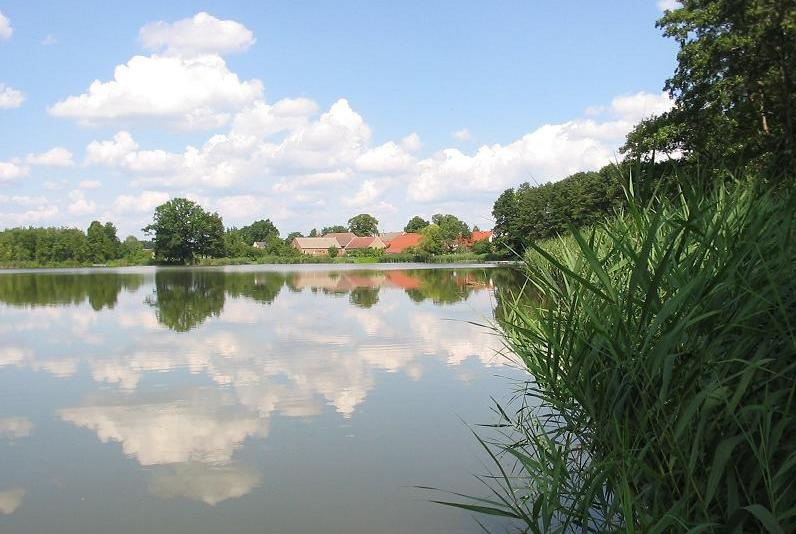 Bauernsee (german for „farmers-lake“) in Dobbrikow, a village (part) of the municipality Nuthe-Urstromtal in Brandenburg, Germany